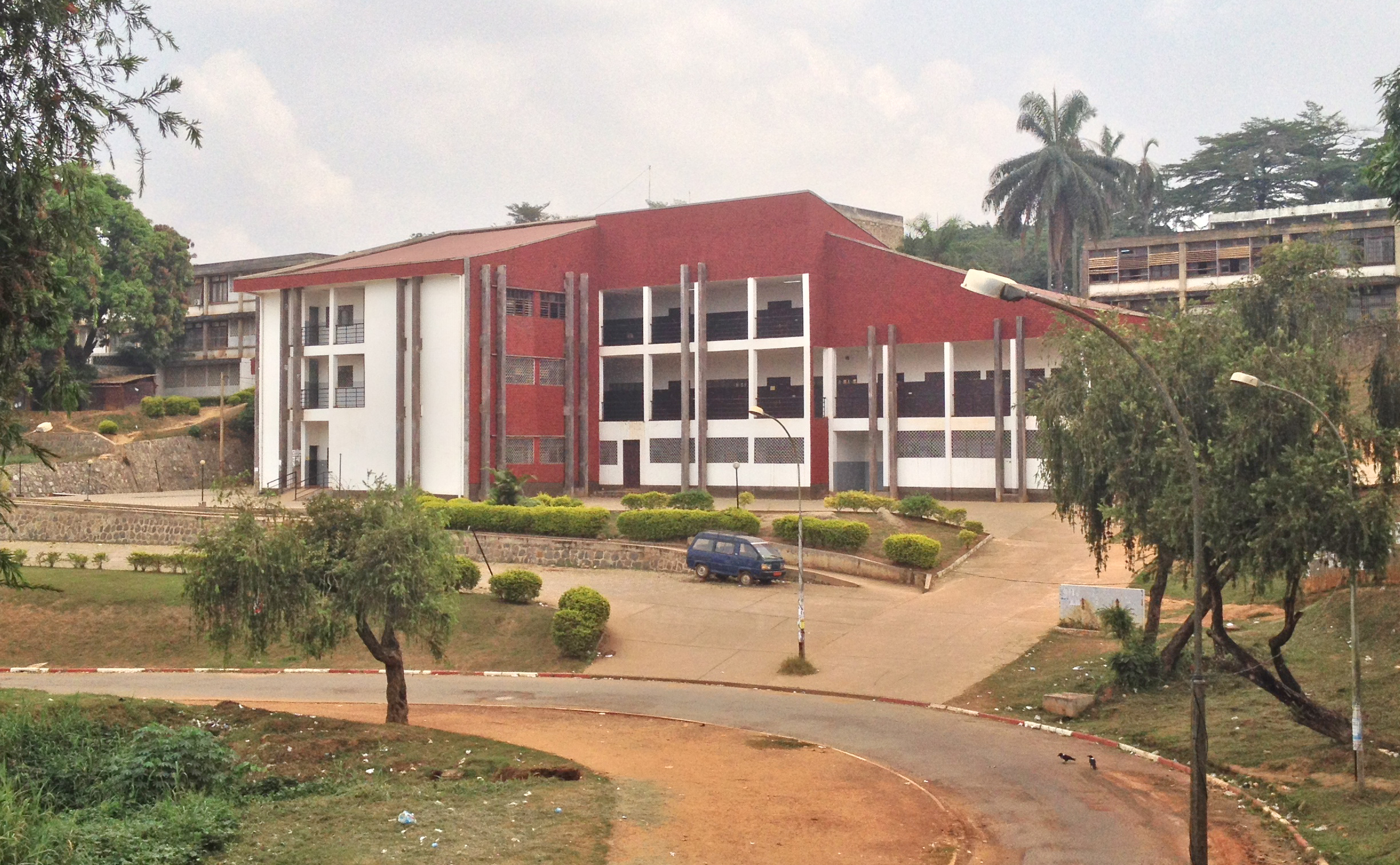 NBP (Nouveau bloc pédagogique) Building of University of Yaoundé I on the campus in Ngoa-Ekelle.